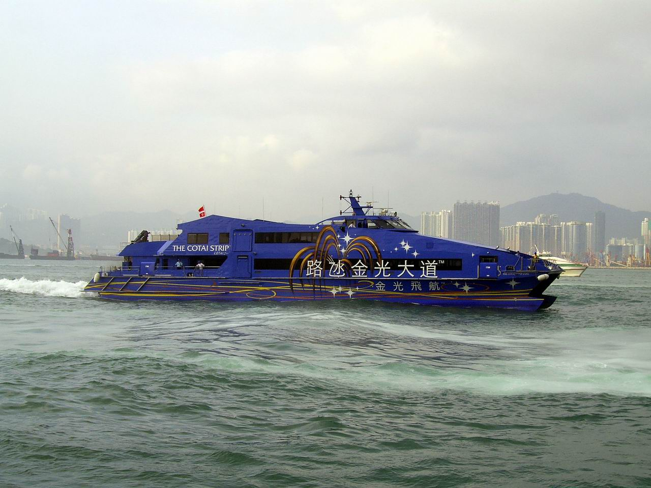 金光飛航博覽會號 IMO Number: 9429624 Flag: Hong Kong MMSI Number: 477937300 Callsign: VRDM6 Length: 47 m Beam: 11 m